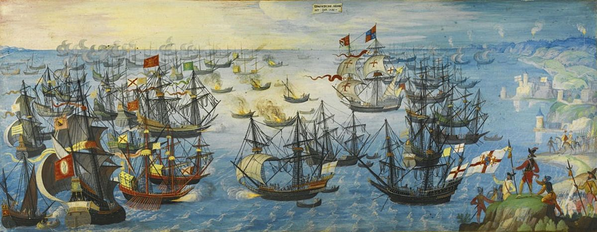 Elizabeth I Watching Defeat of Spanish Armada by an unknown artist, 16th century